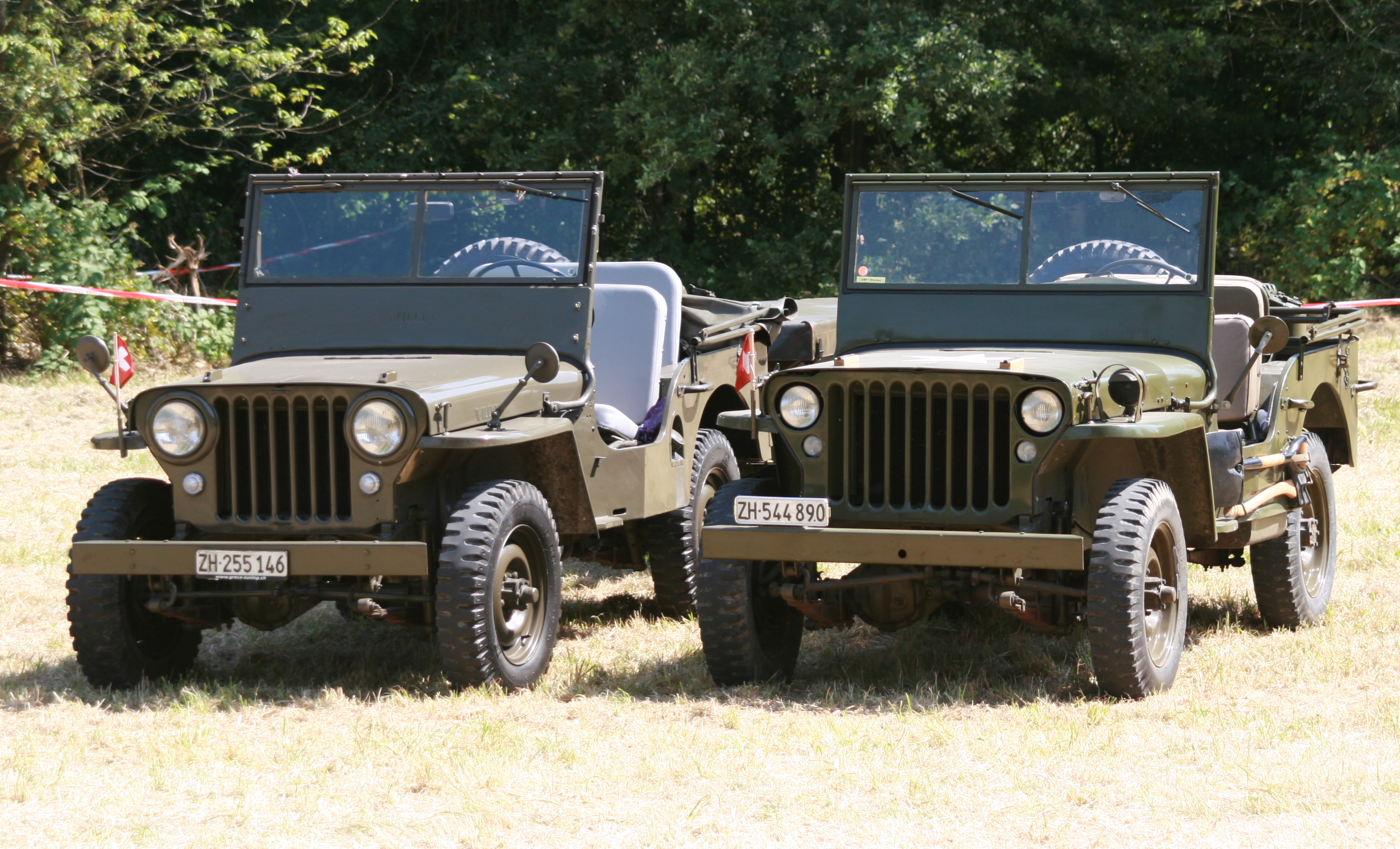 6. IMFT in Full-Reuenthal : Willys M38 (left) and Willys MB (right)